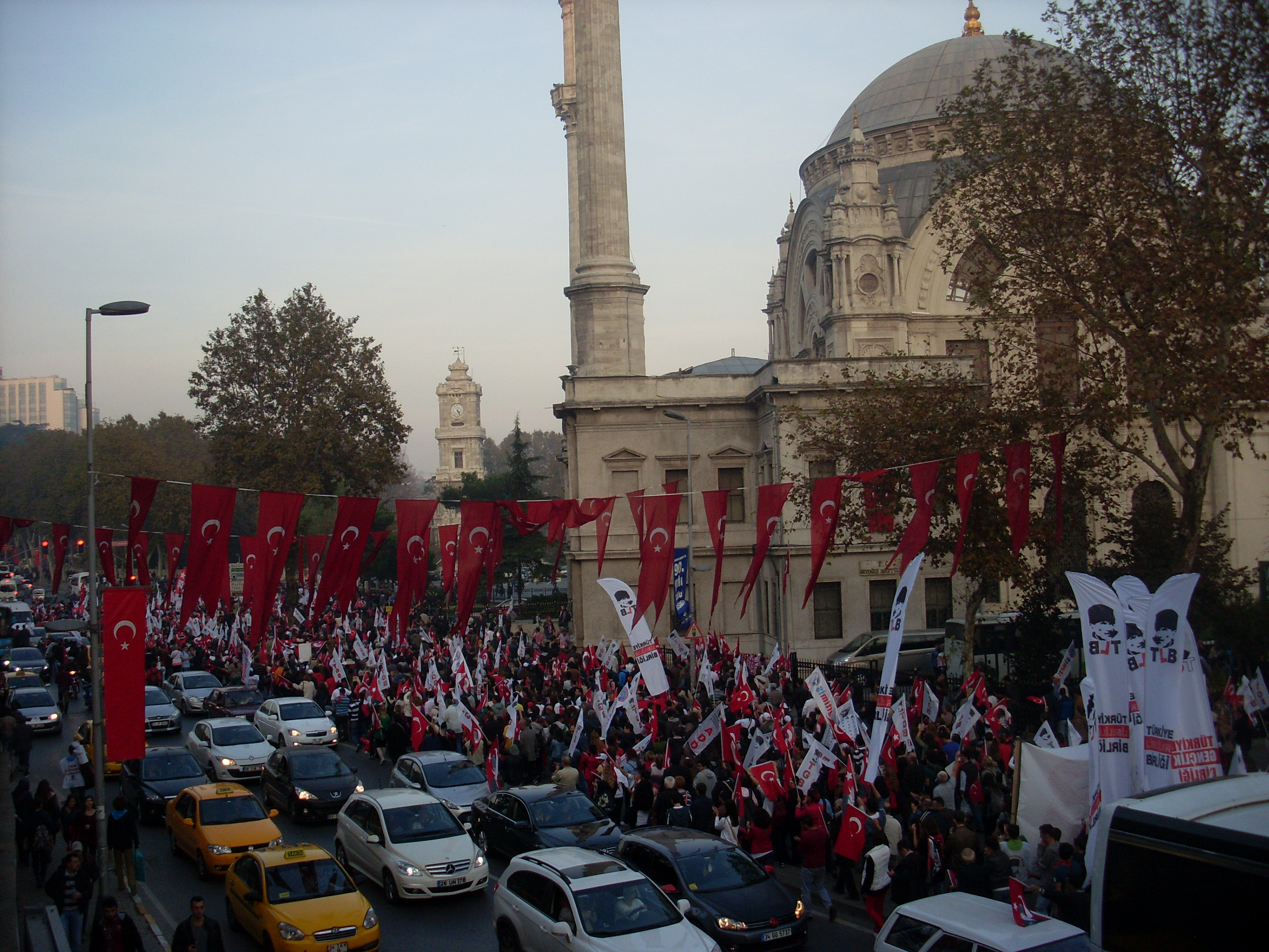 TGB,TLB,ADD march 29 Oct 2013 İstanbul